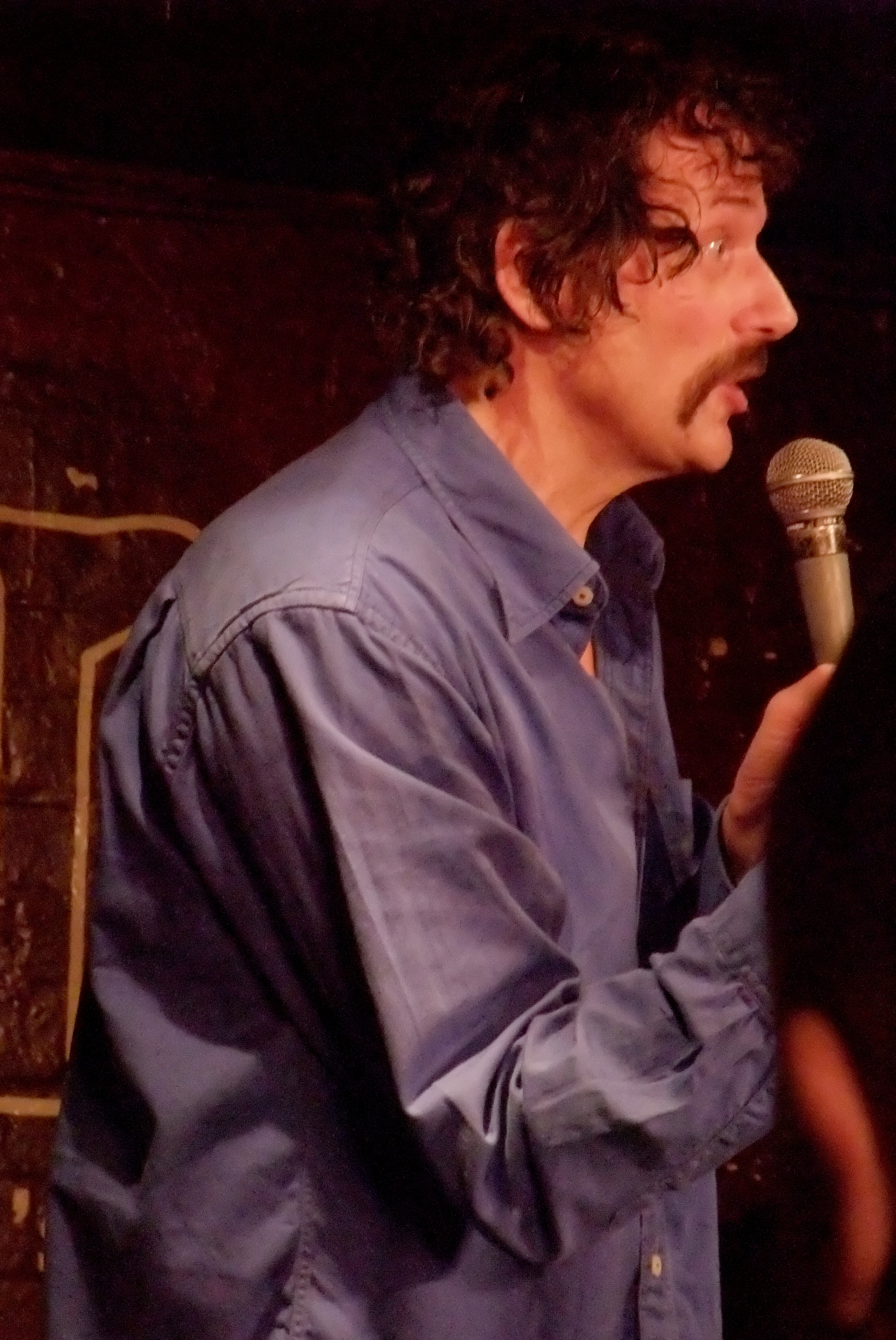 Actor and stand-up commedian Dave Thompson is noted for being fired from the role of "TinkyWinky" - a character in the children's TV series "The Telletubbies". This photo was taken at one of his performances at the Kings Head in Crouch End.